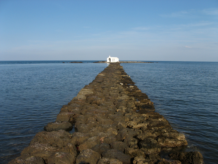 Saint Nicholas church at the village of Georgioupoli, Crete, Greece.